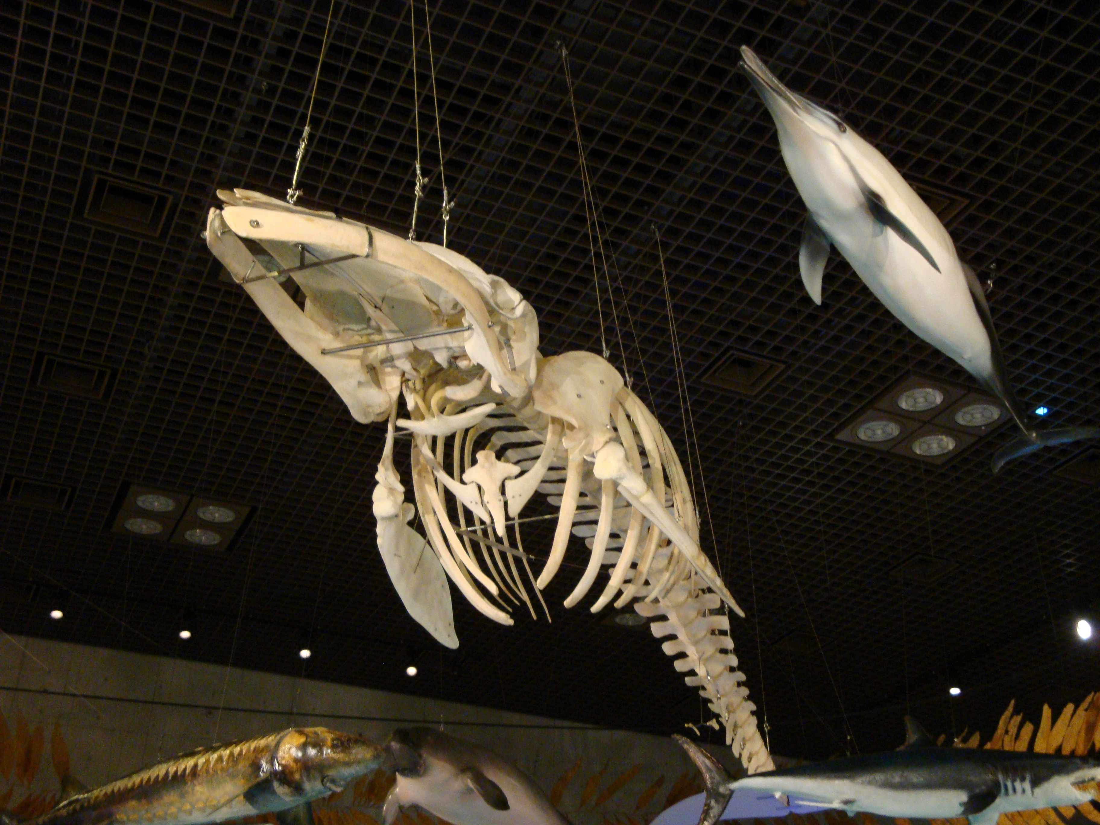 Global Gallery